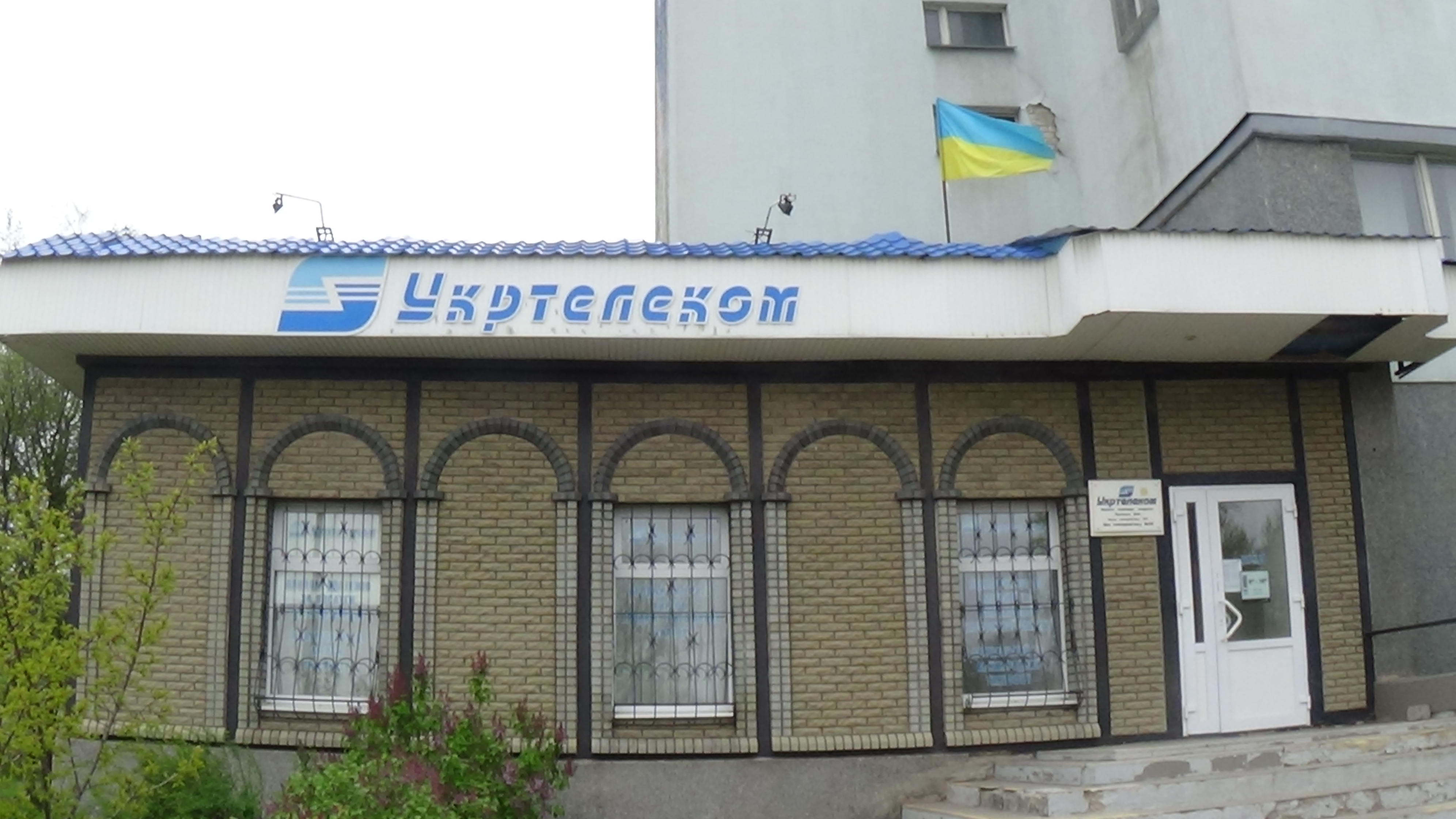 Entrance to Ukrtelekom building